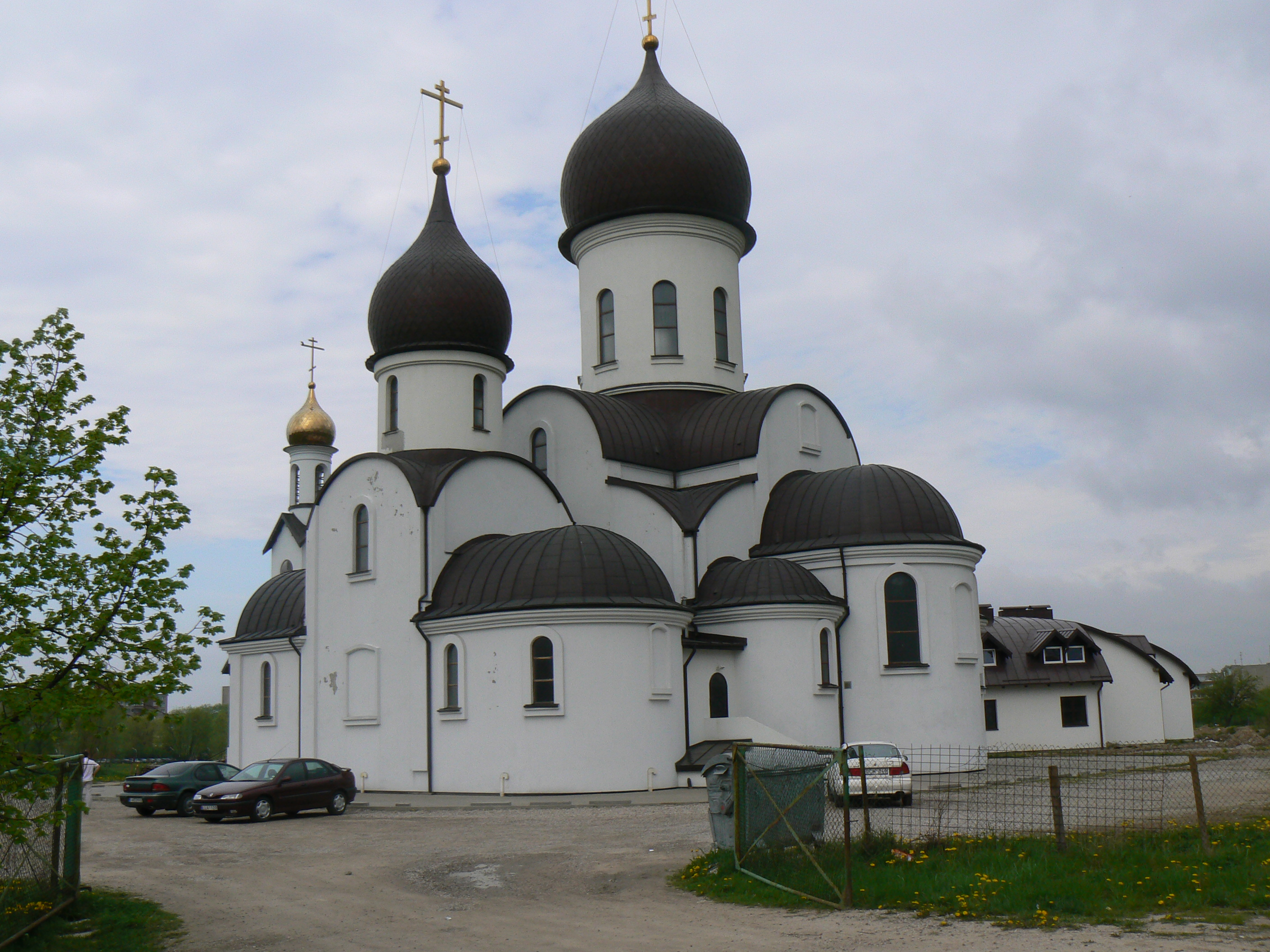 Orthodox church Pokrovo-Micolaus in Klaipėda Smiltelės g. 14a